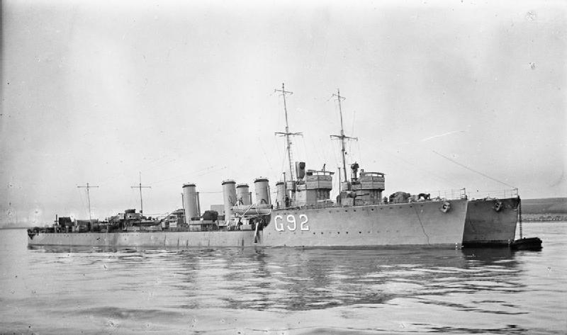 Photograph of British R class destroyer HMS Rob Roy.